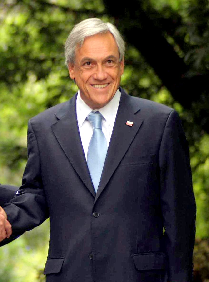 Sebastián Piñera.